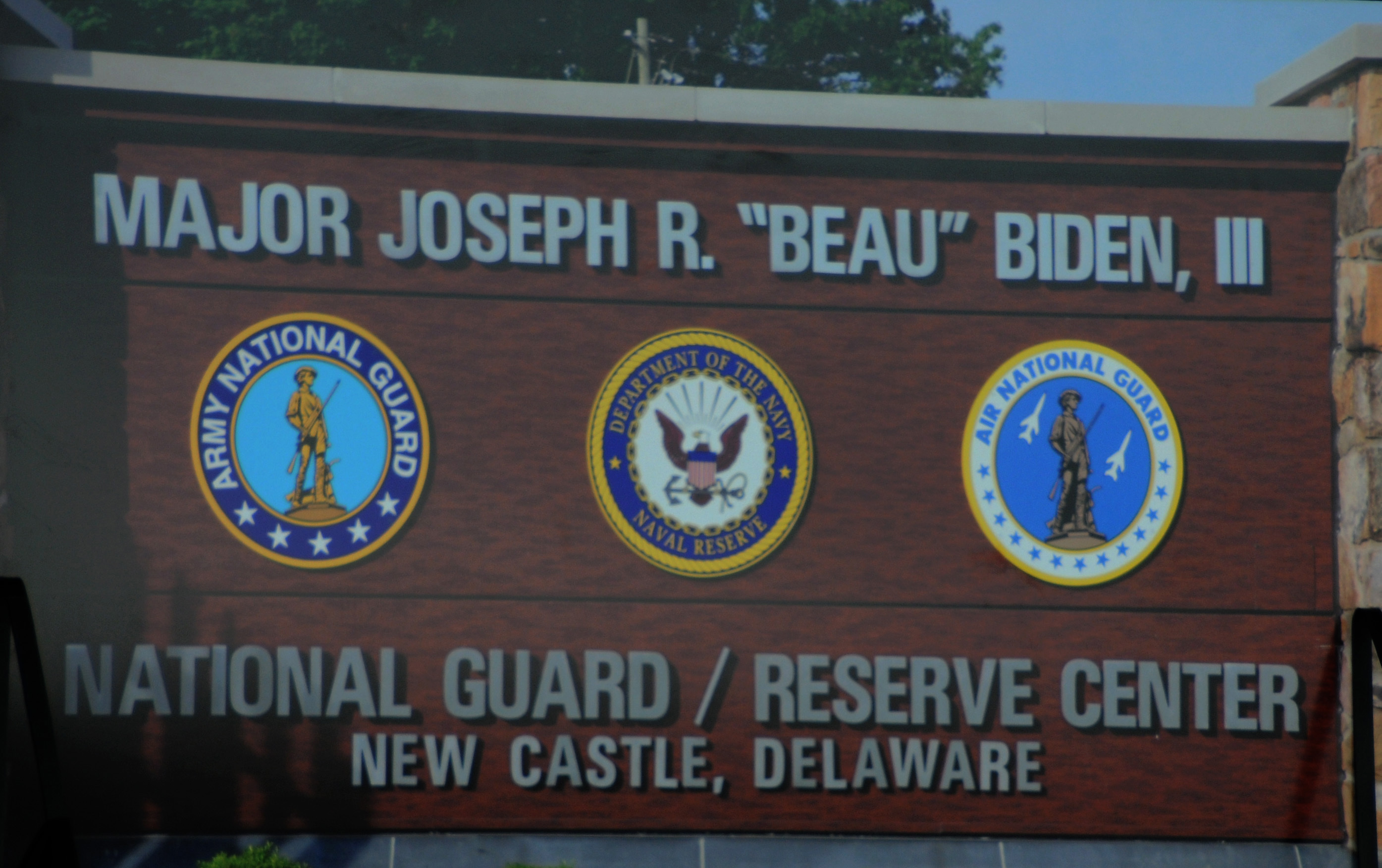 NEW CASTLE, DE- The joint headquarters building sign for the Delaware National Guard is revealed in honor of Major Joseph R. “Beau” here on May 30, 2016. (U.S. Air National Guard photo by Tech. Sgt. Gwendolyn Blakley/ Released) Unit: 166th Airlift Wing, Delaware Air National Guard DVIDS Tags: Air National Guard; Delaware National Guard; Delaware; Biden; Vice President; Vice President Joe Biden; Memorial Day; veterans; military; New Castle; Delaware Air National Guard; Memorial Day ceremony; building dedication; Major Joseph Beau Biden III; National Guard Reserve Center